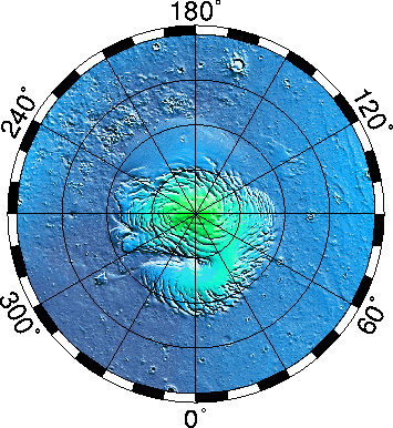 False colour elevation map of Planum Boreum, taken by Mars Global Surveyor. The outer ring is 70°N, with concentric rings every 5°. There is a blackout near the north pole due to the geometry of MGS's orbit. Cropped from Image:MarsTopoMap-PIA02031 modest.jpg. Legend is on the larger image.